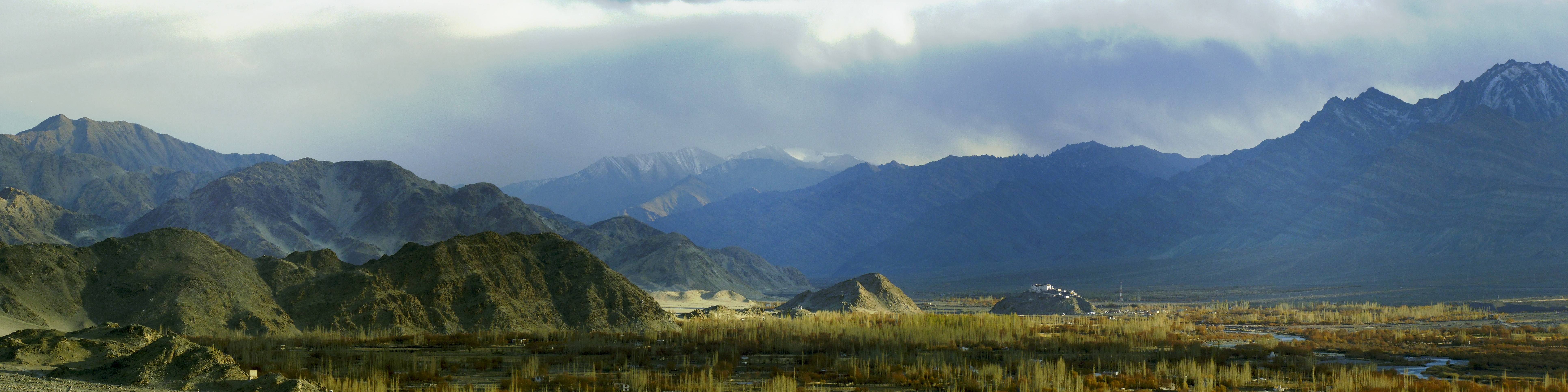 View of the Indus valley near Leh